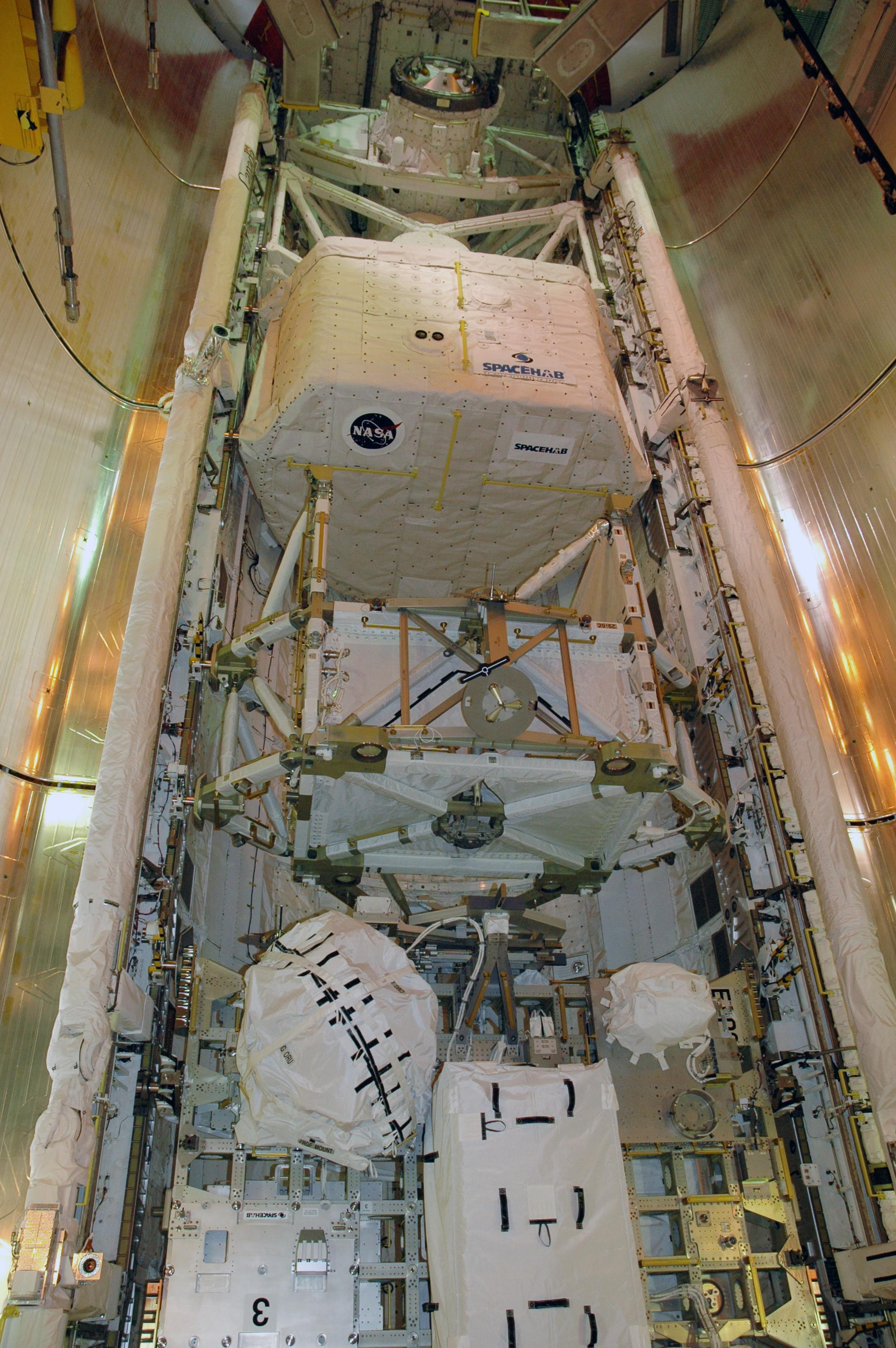 On Launch Pad 39A, Endeavour's payload bay doors are open, revealing the cargo and equipment inside. At the top is the orbiter docking system; below it are the SPACEHAB module, the S5 truss and the external stowage platform 3 holding a control moment gyro at left and other supplies. The payload bay doors were opened to allow for payload closeouts, including camera tests on the shuttle robotic arm and the extension, known as the orbiter boom sensor system. Endeavour is scheduled to launch Aug. 7 on mission STS-118, the 22nd flight to the International Space Station.